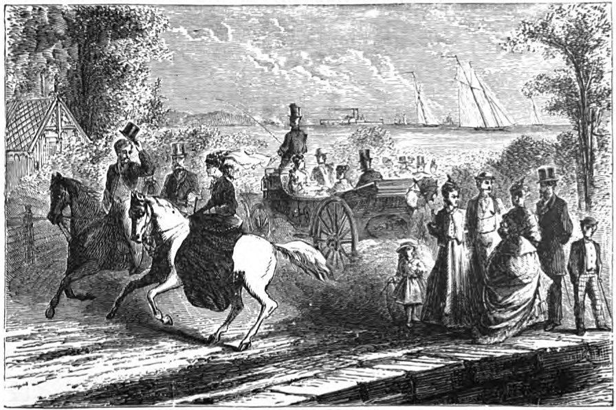 Book engraving of Seaside Park in Bridgeport, Connecticut